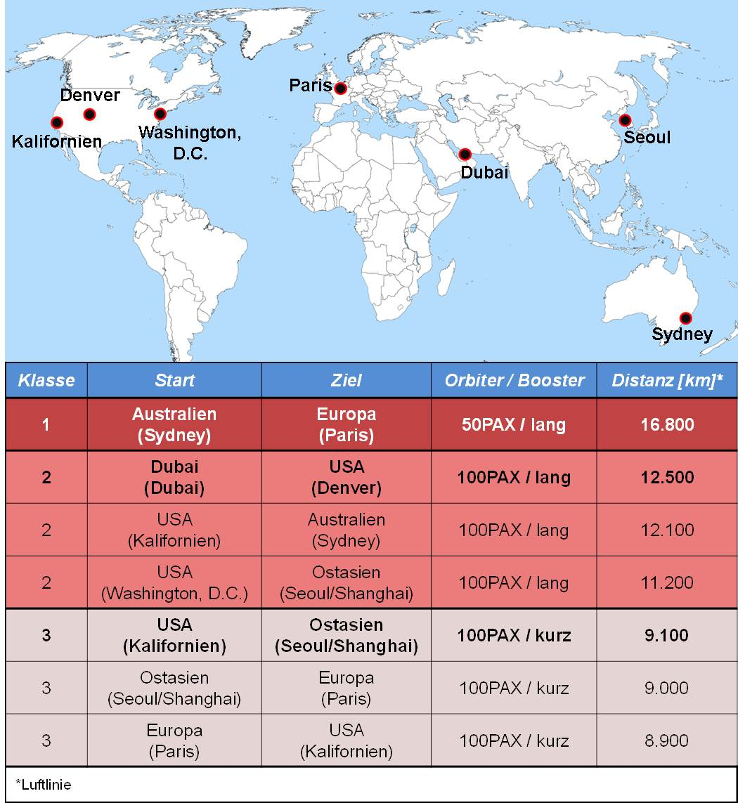 SpaceLiner 7 Travel Route Map